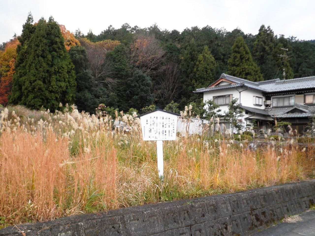 Site of Kikkawa Hiroie's position in the Battle of Sekigahara located in Tarui, Gifu.